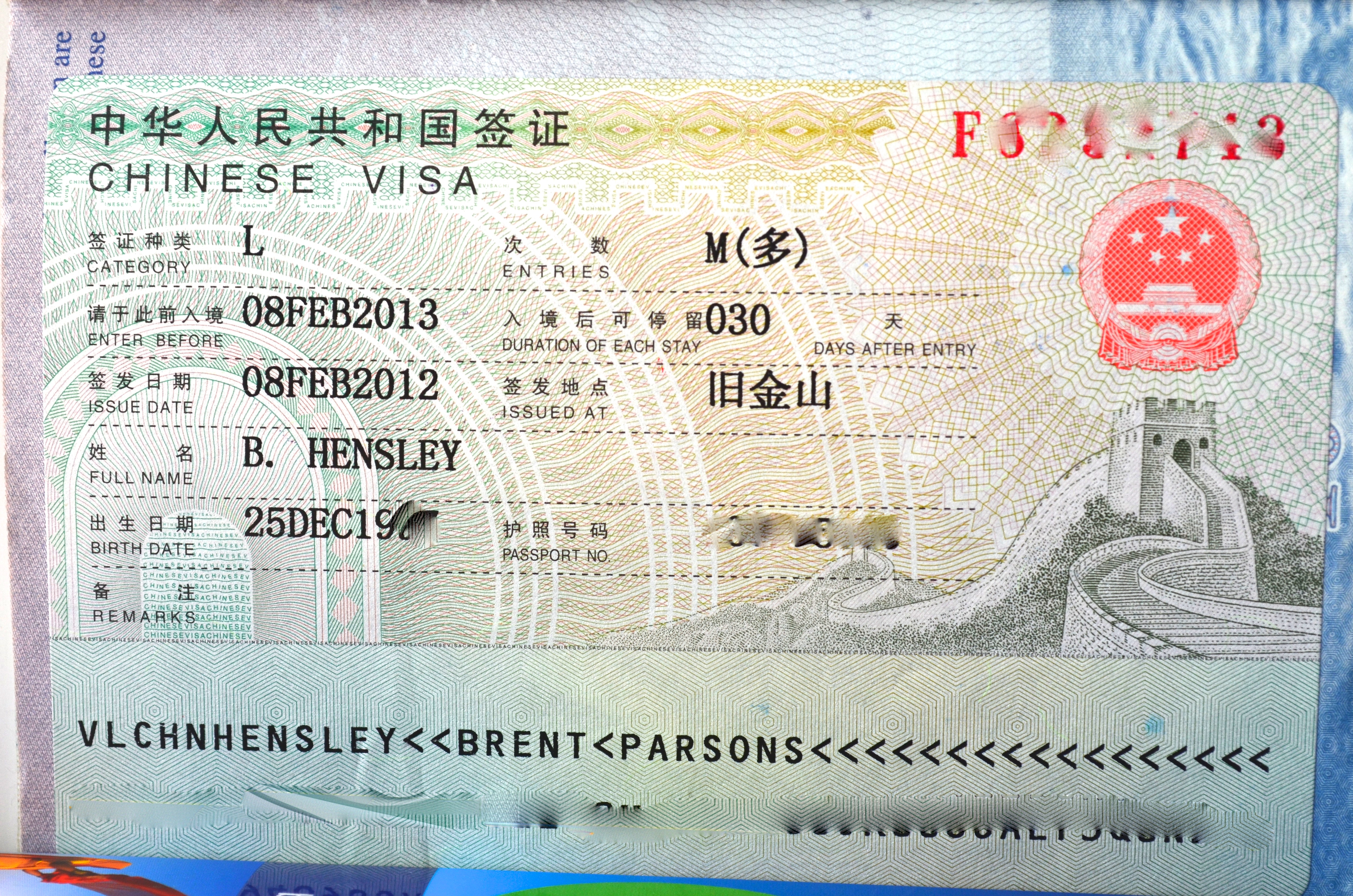 PASSPORT STAMP